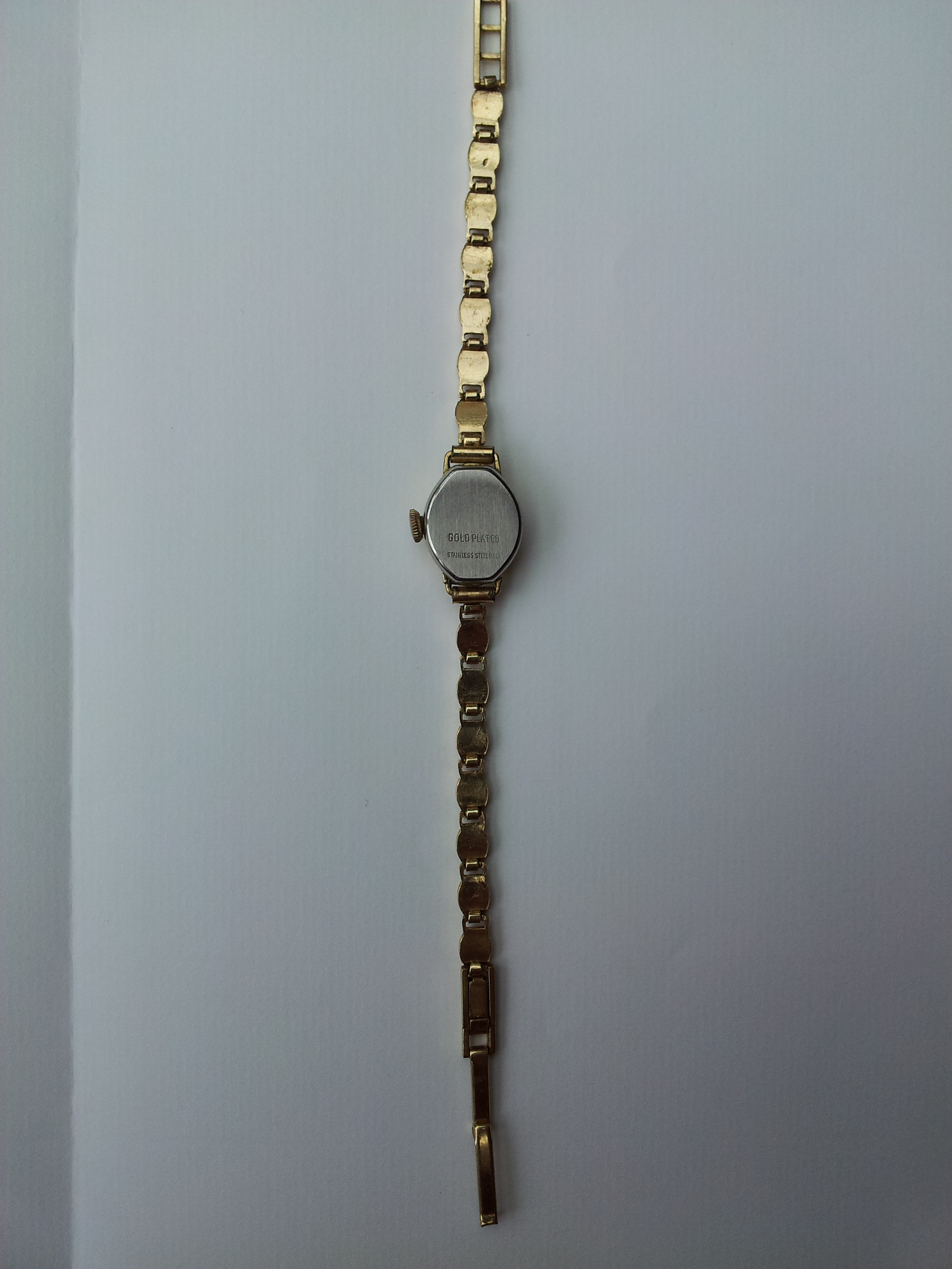 Lasita Watch Back